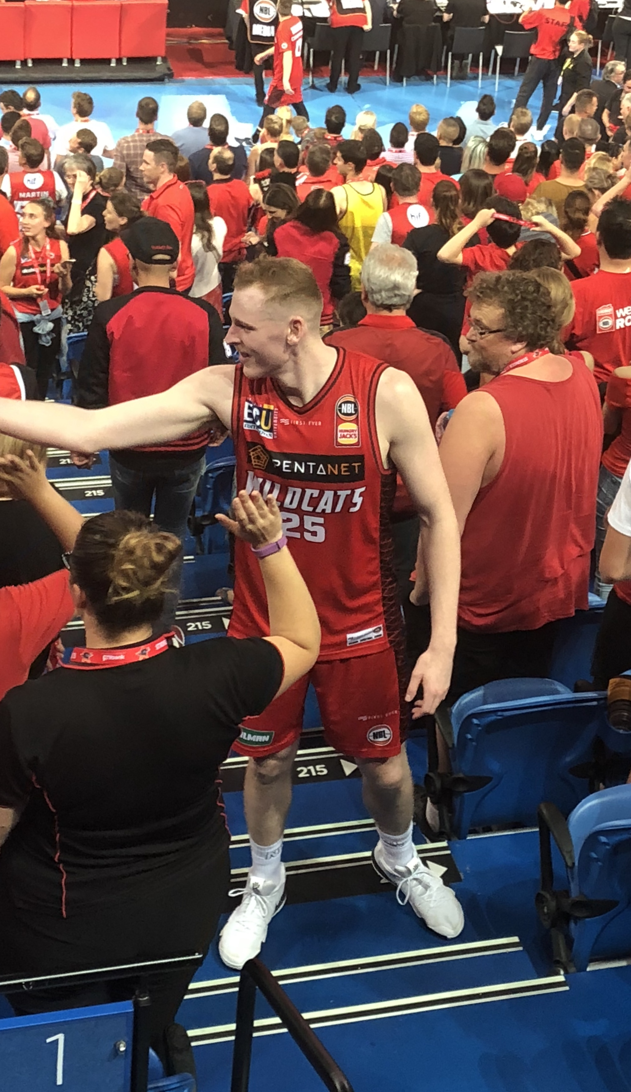 Rhys Vague of the Perth Wildcats